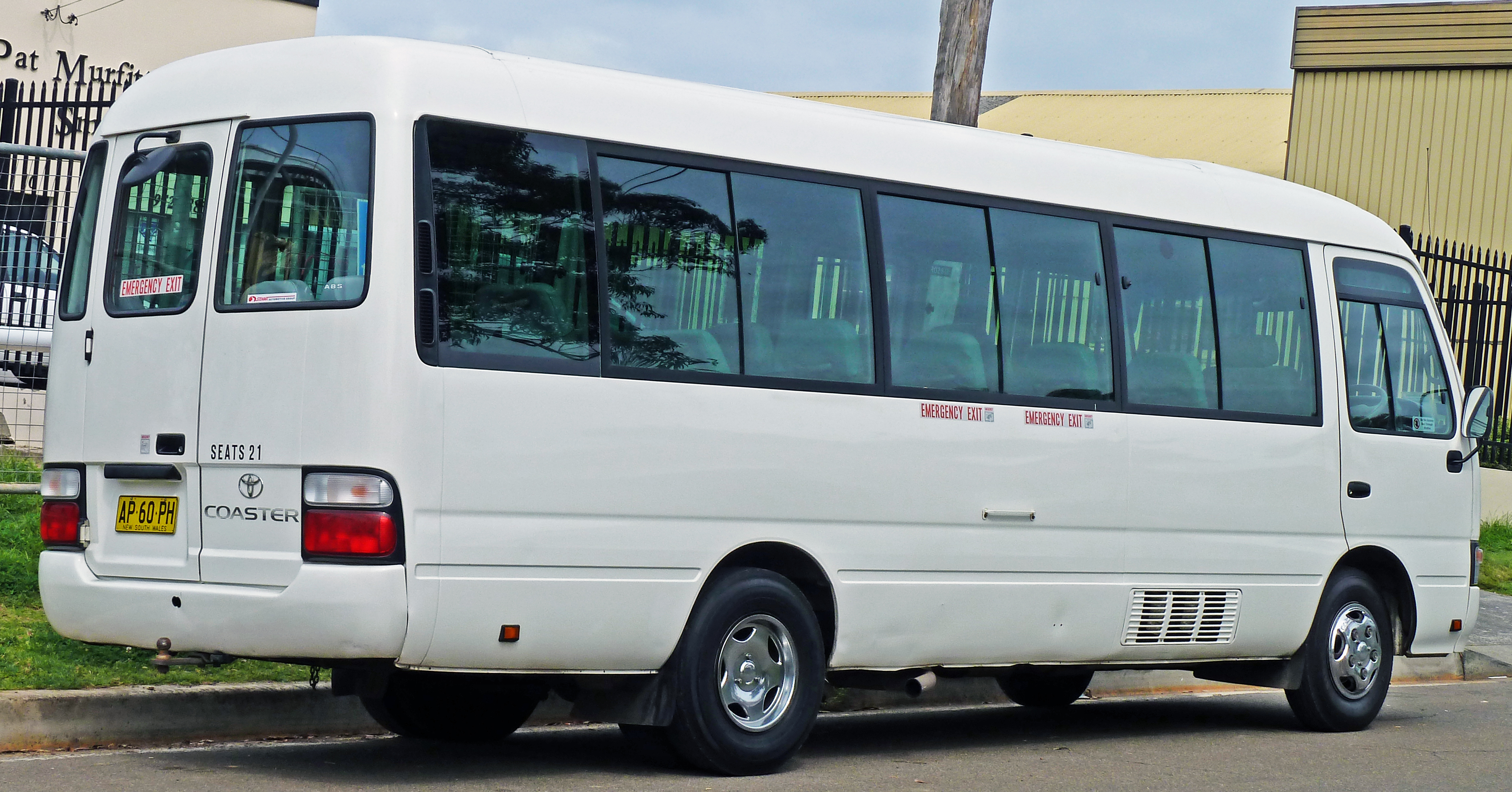 2001–2007 Toyota Coaster bus. Photographed in Caringbah, New South Wales, Australia.